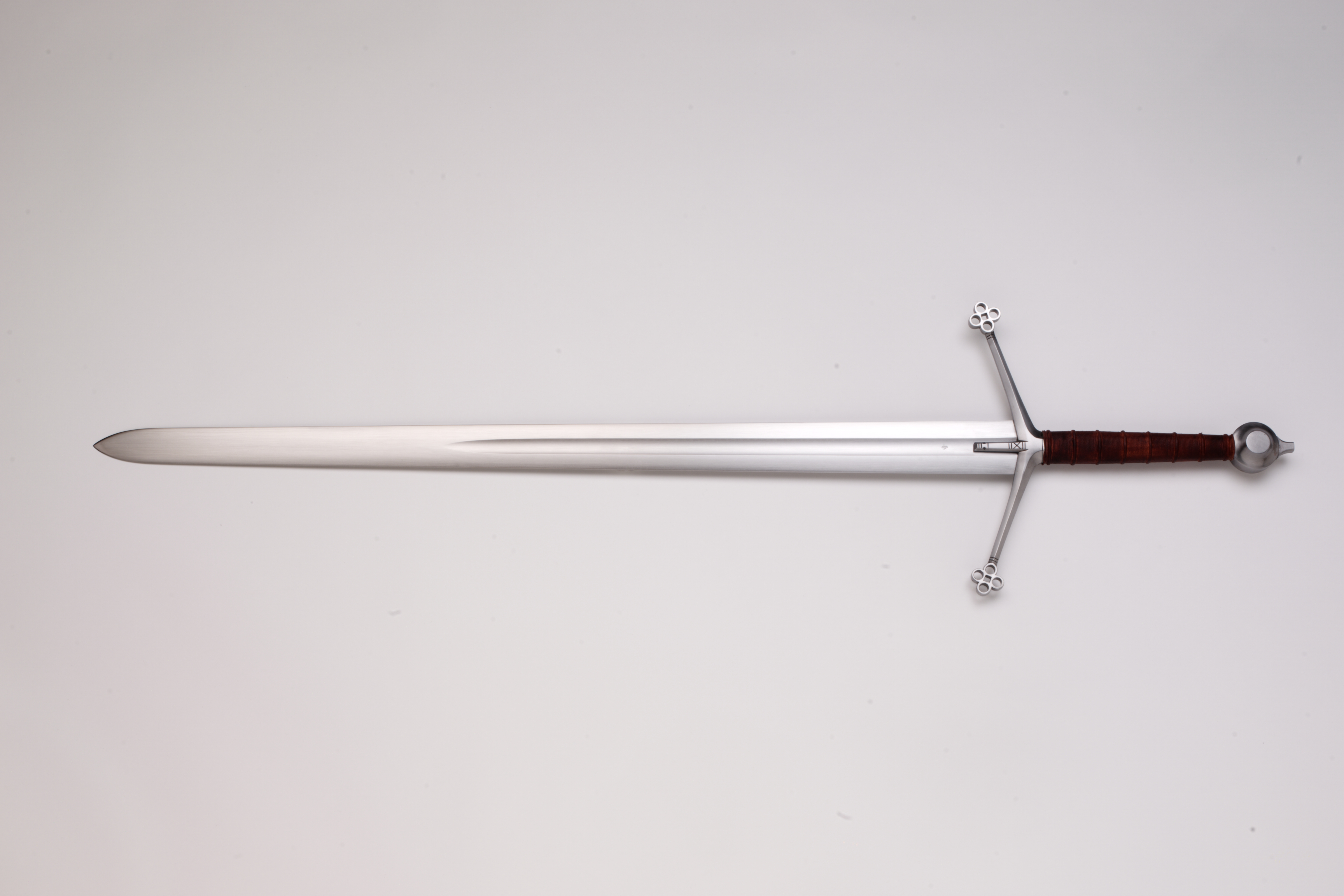 A photo of a replica of a Scottish claymore. This replica is a 'Chieftain Limited Edition Medieval Scottish War Sword', sold by Albion Europe.[1] The sword measures: Total length: 118 cm (46,46"); Blade length: 92 cm (36,02"); CoG: 13 cm (5,24"); CoP: 59 cm (23,23"); Weight: 1800 g (3,968 lbs); Grip length: 18,3 cm (7,205").